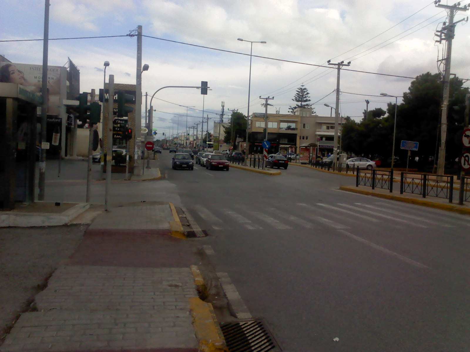 Avenue Marathonos Nea Makri